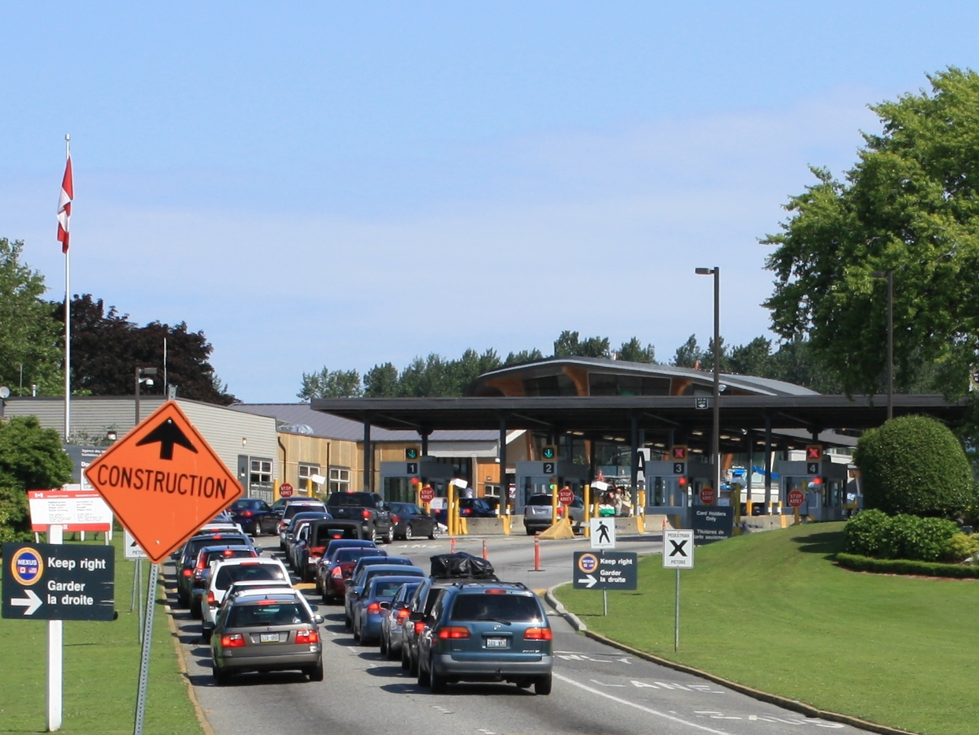 Cars approaching Canada Customs at Surrey, BC in Canada from Blaine, WA in the U.S.